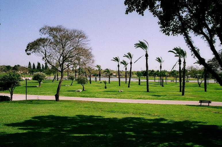 Begin (South) Park, Tel Aviv